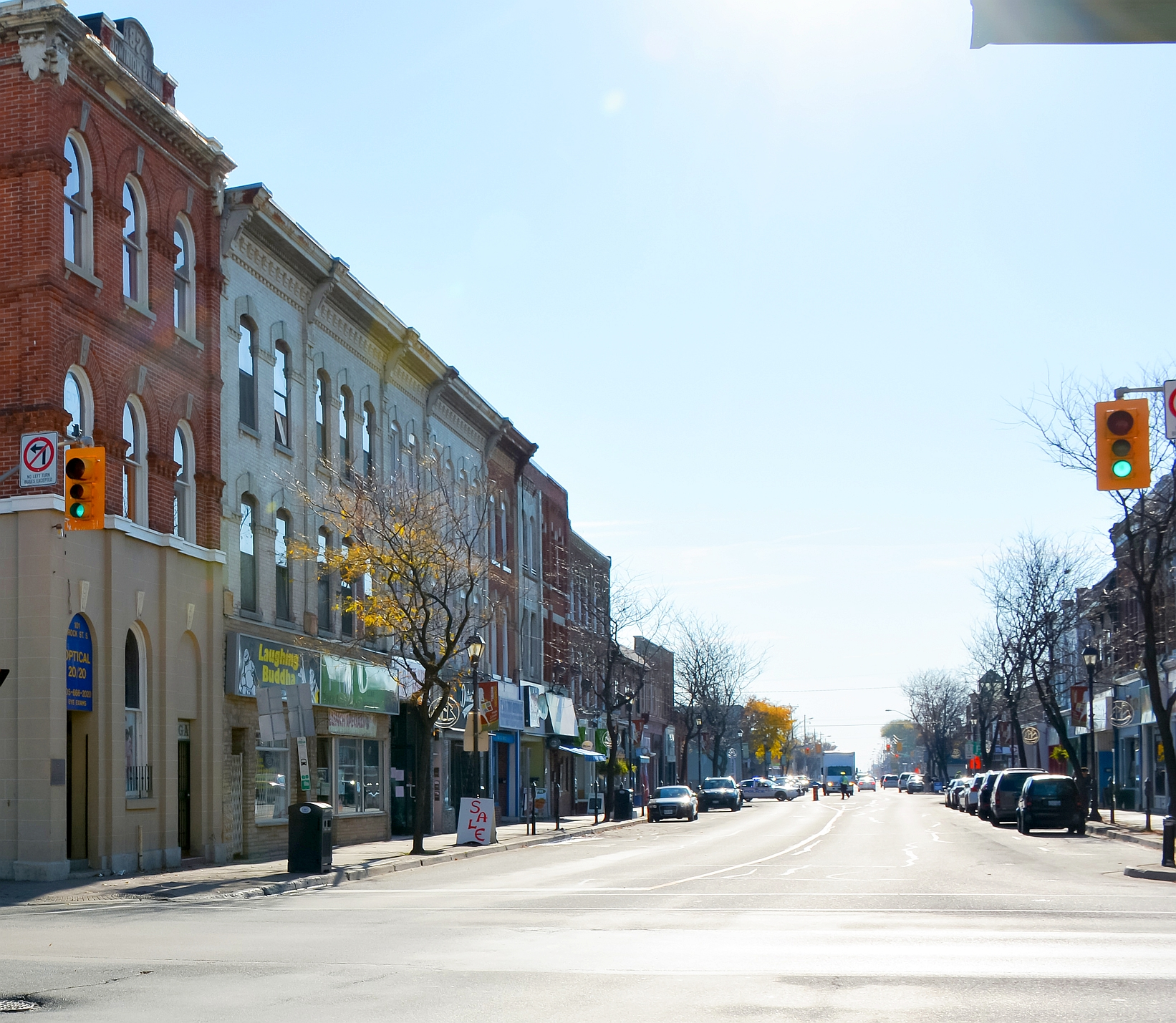 Remembrance Day 2014 on Brock Street in Whitby, Ontario.